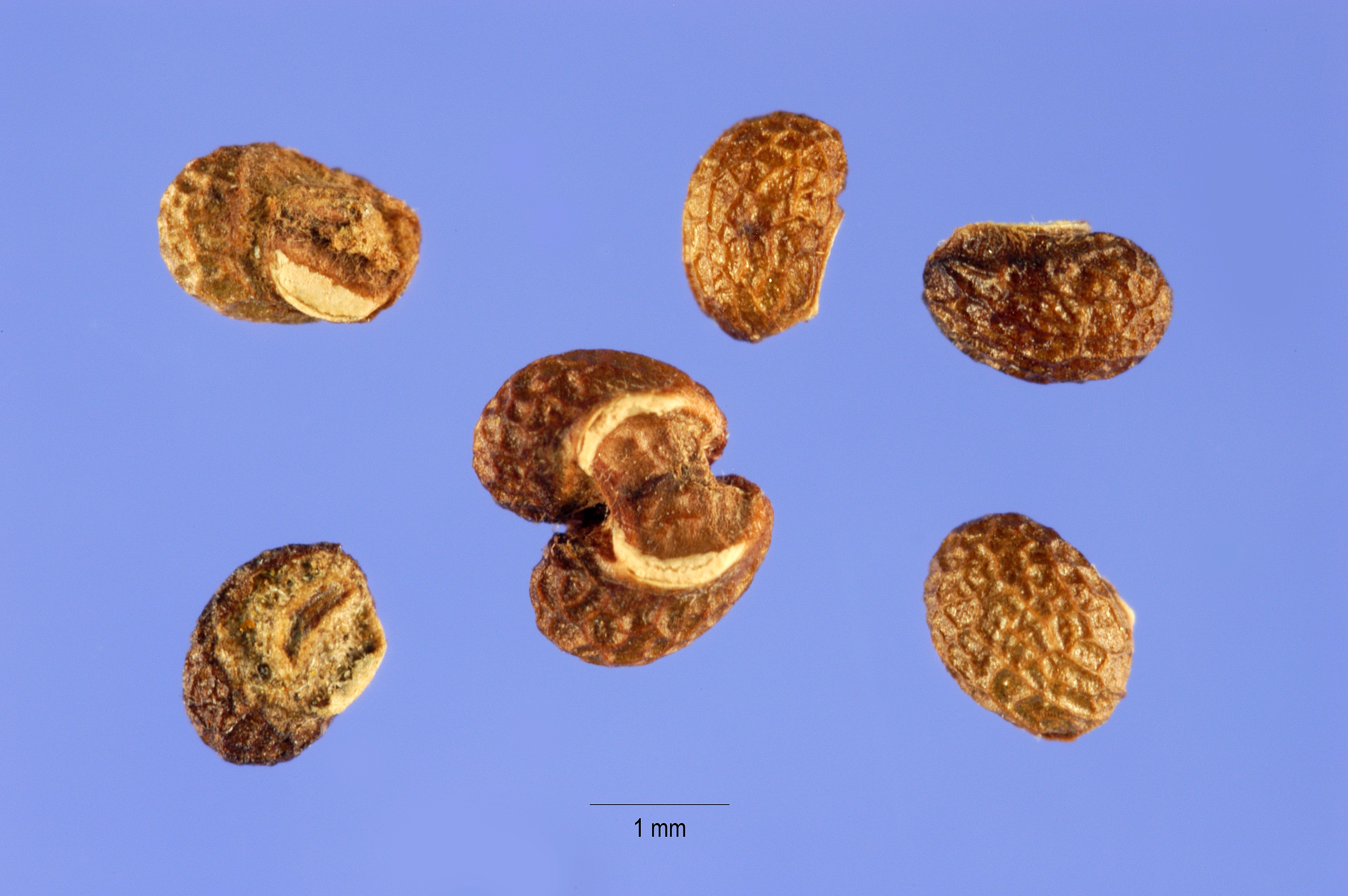 Common Bugle. Family Lamiaceae. Seeds. Collected in Washington, DC, USA.